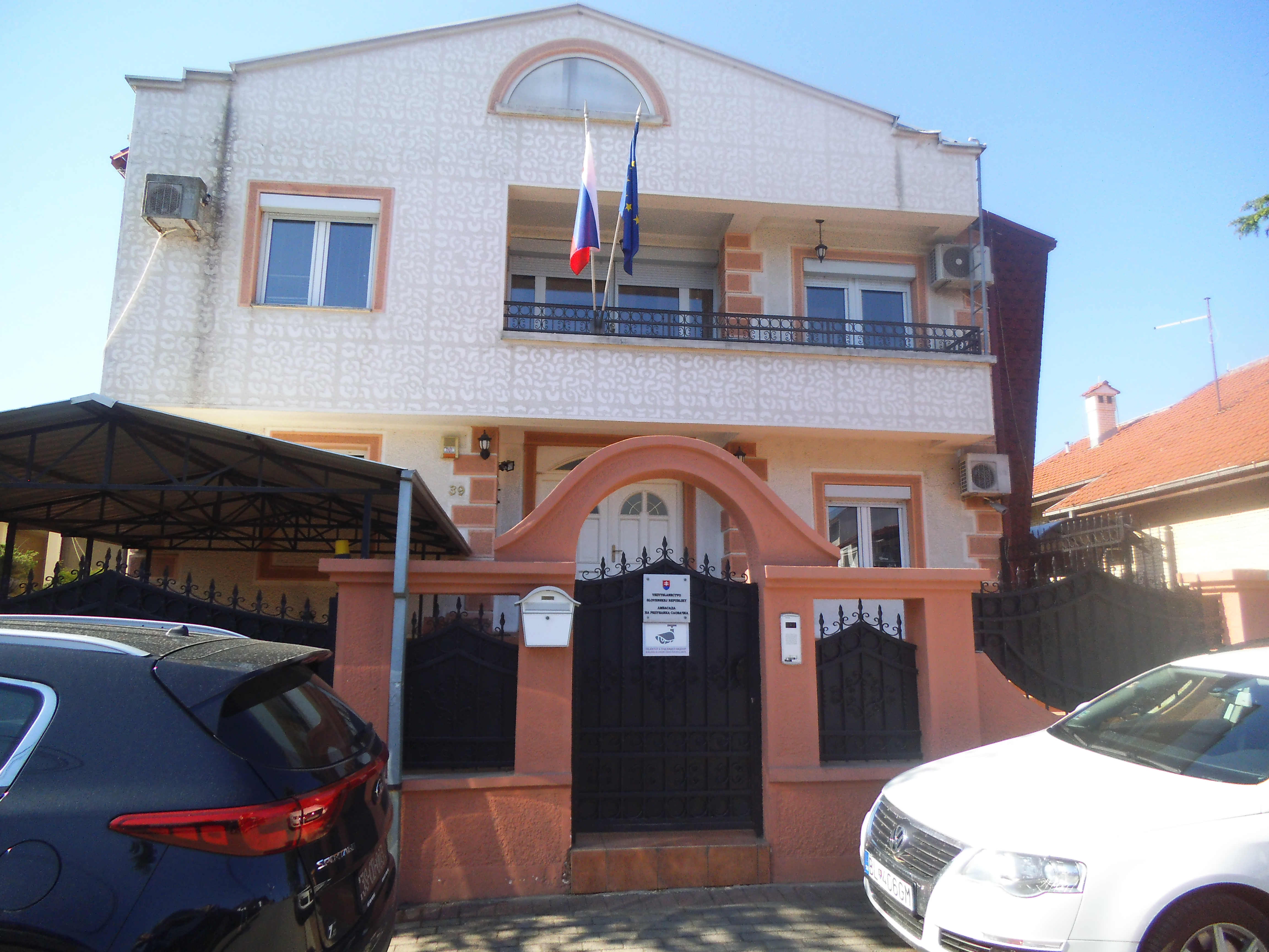 The embassy of Slovakia in Skopje, North Macedonia.